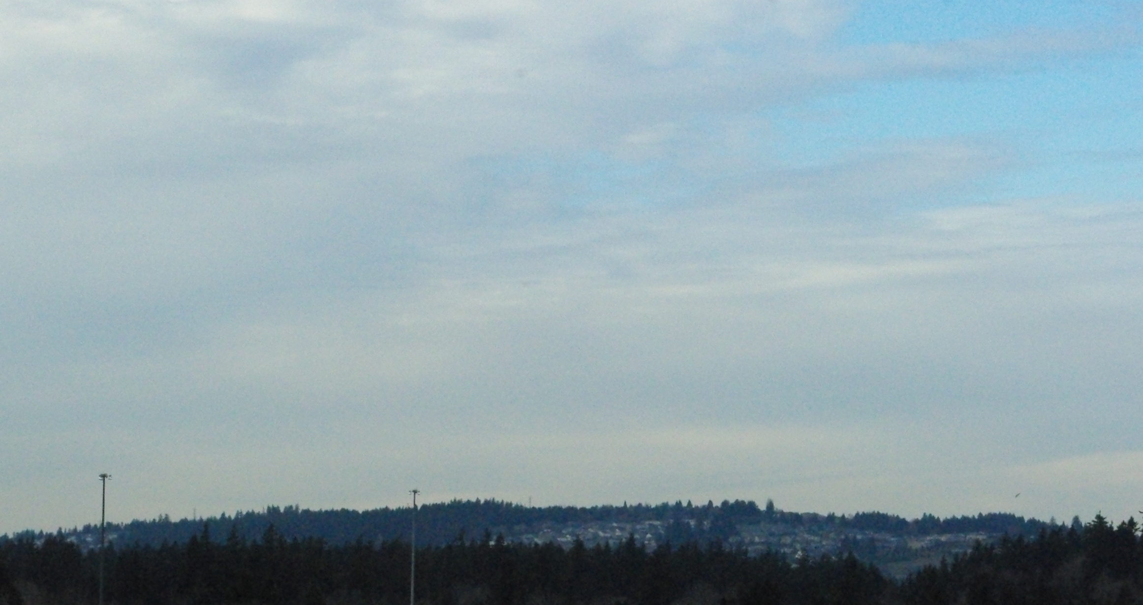 Bull Mountain viewed from a shopping center in Tualatin, Oregon, USA